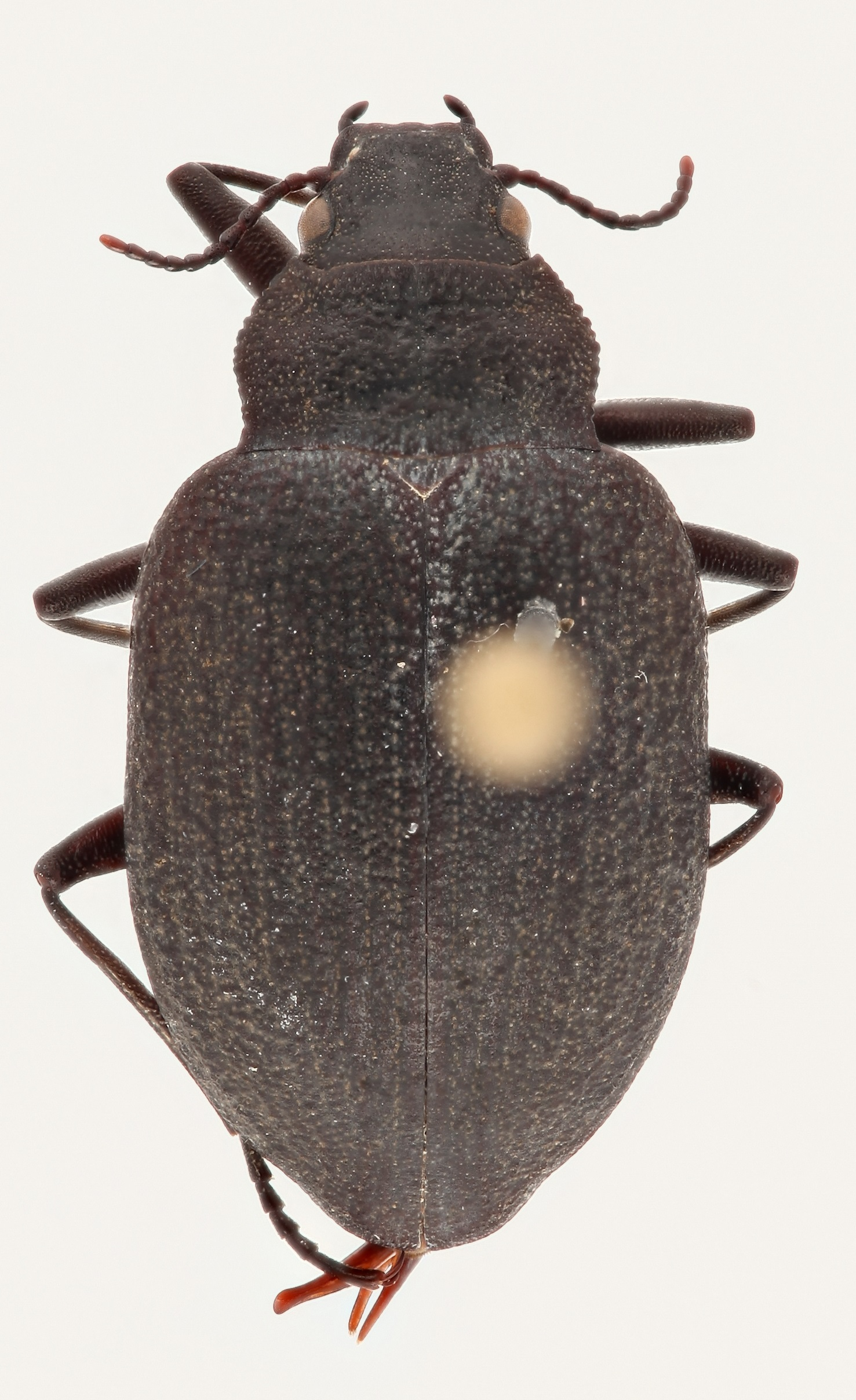 Dorsal view of Amphizoa insolens. Specimen in the collections at the Swedish Museum of Natural History.